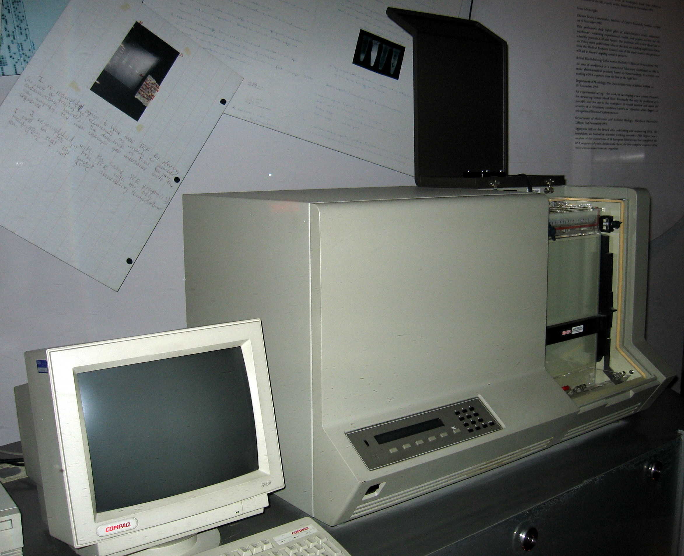 370A automated DNA sequencer by Applied Biosystems (1987). Now exposed at the Science Museum, London.